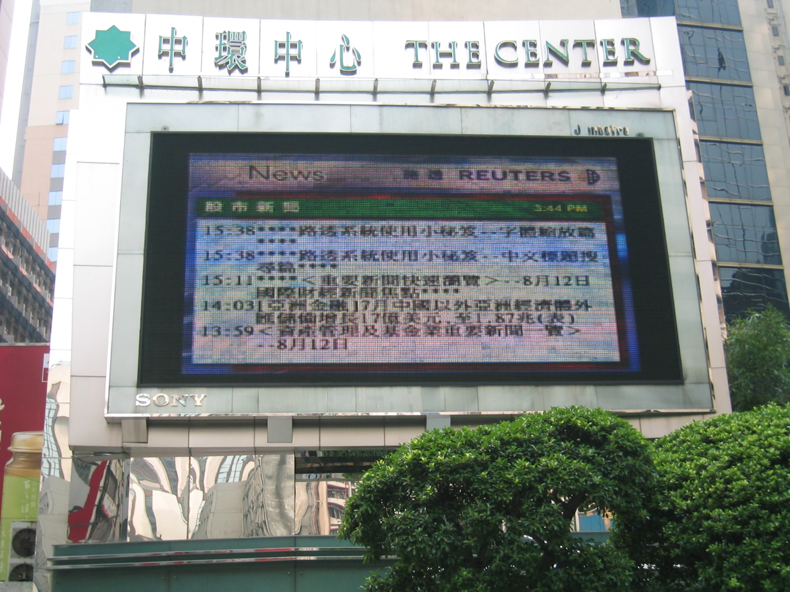 Reuters news screen on The Center, Central, Hong Kong